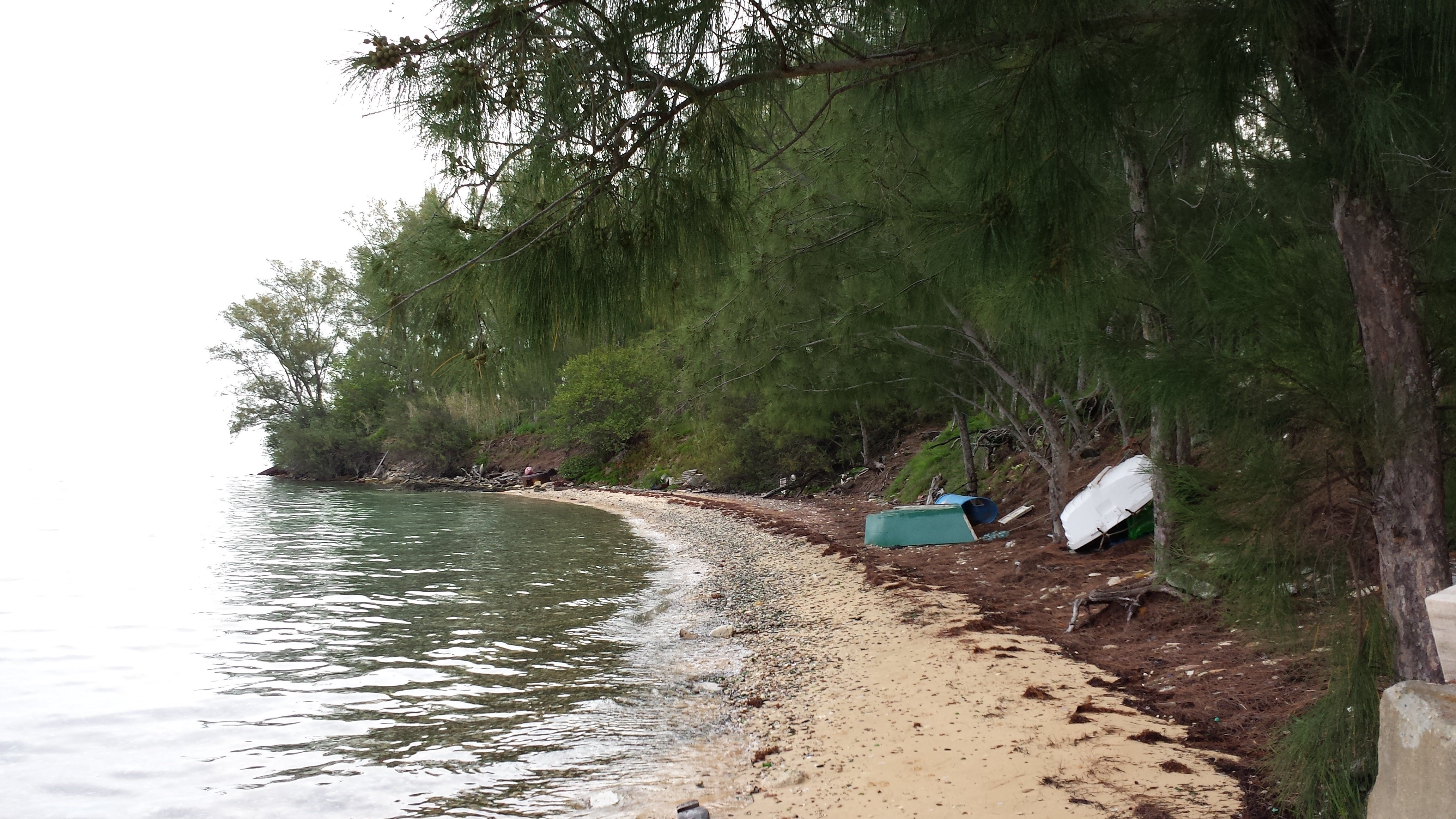 Black Bay Beach in Bermuda is covered in green, white, clear, and some brown sea glass